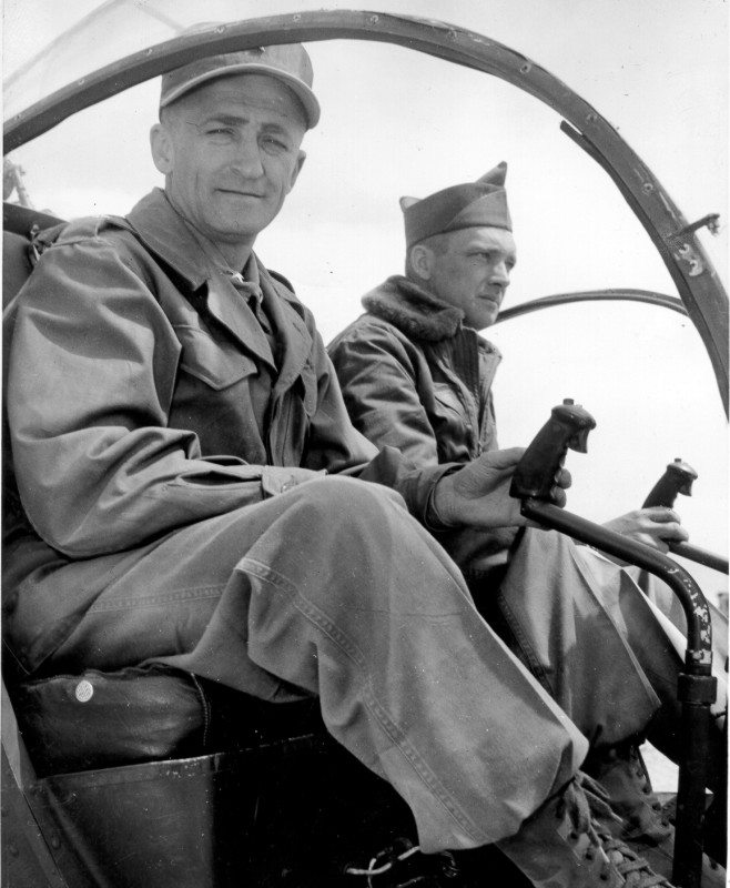 In the helicopter H-13D is Brig. General Harry P. Storke and pilot Lieutenant William Tyler. General Storke, Army Exercise Director of the Atomic Tests at Camp Desert Rock, NV., is about to take off on an inspection of the Blasted area, April 22, 1952.